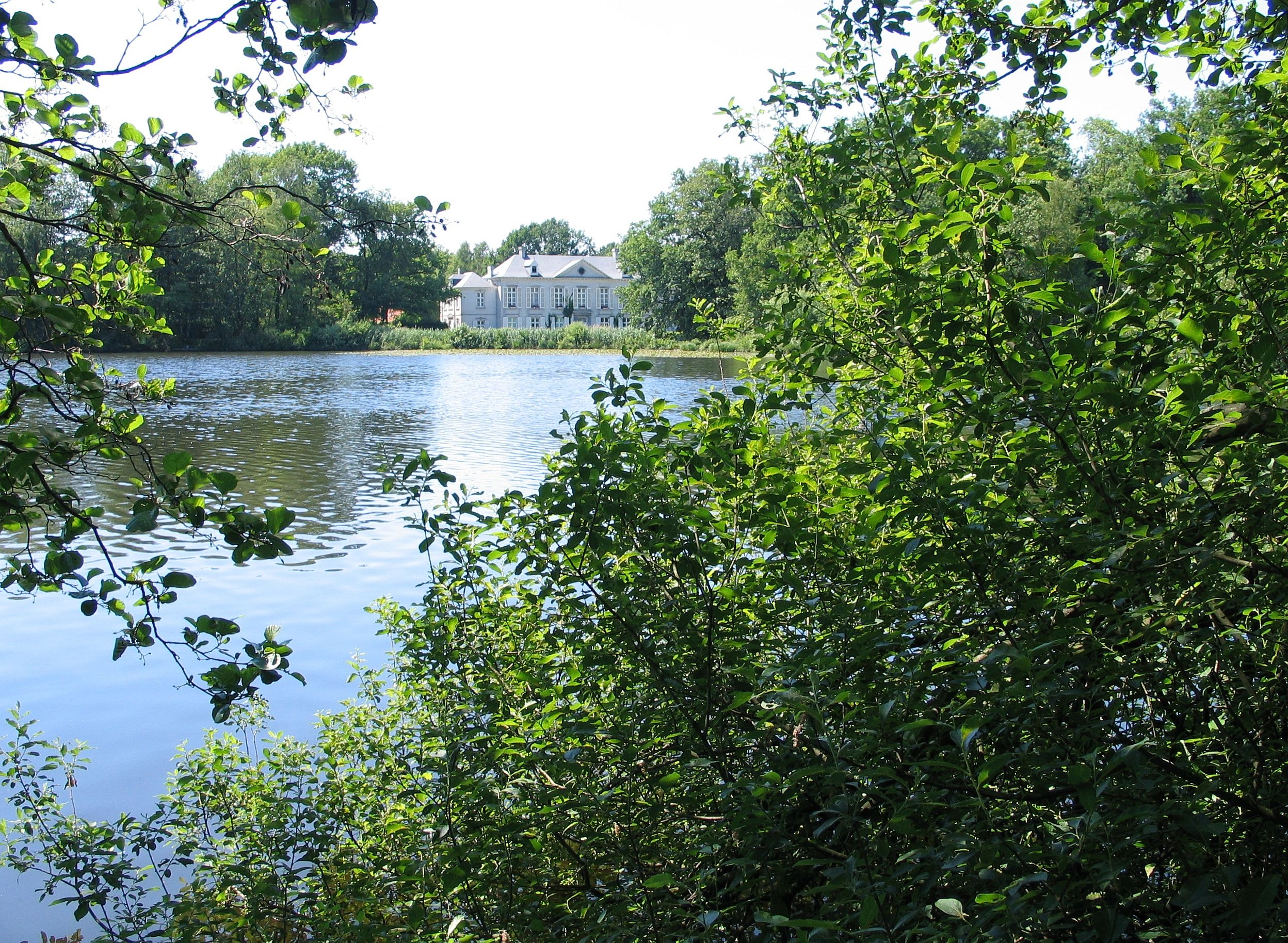 Terlaemen castle.